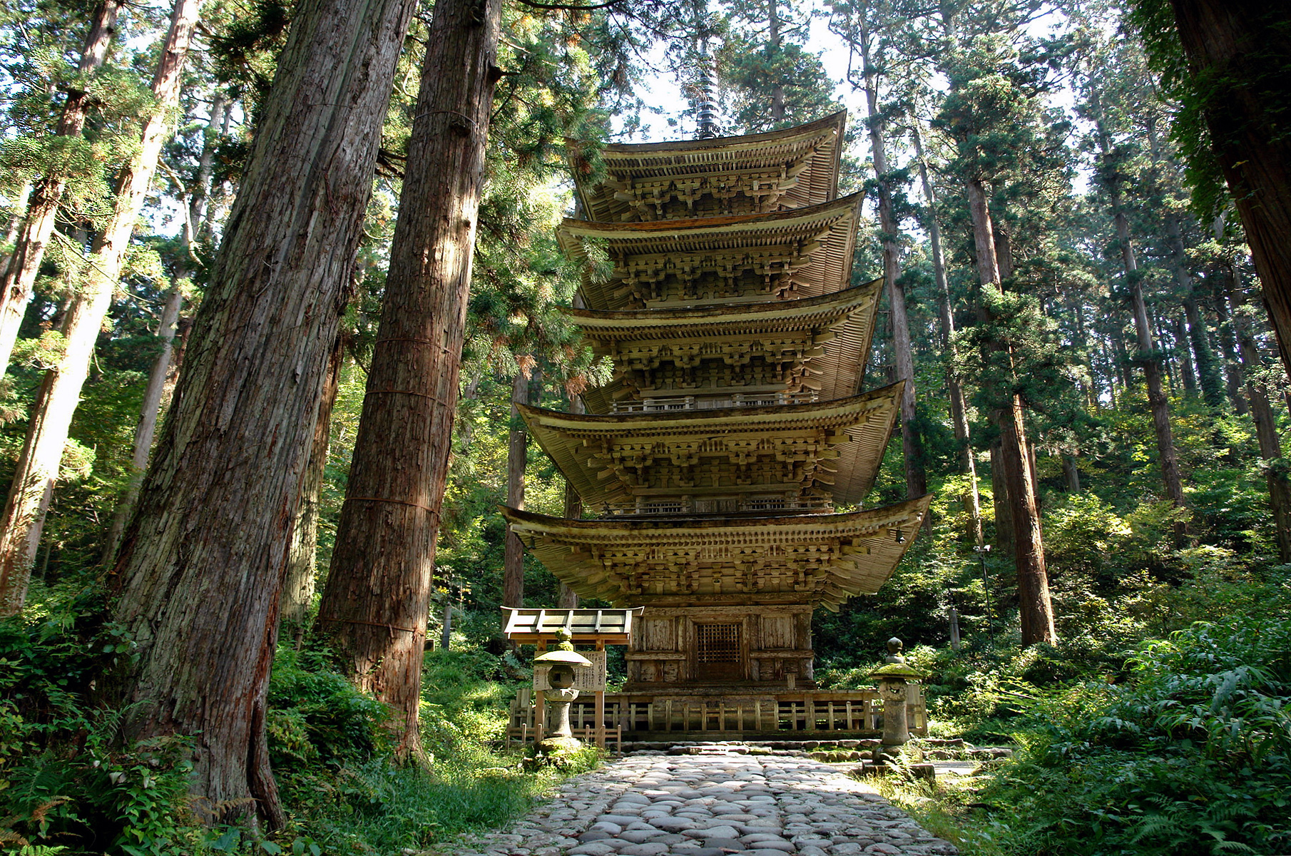 Five-storied Pagoda, Hagurosan